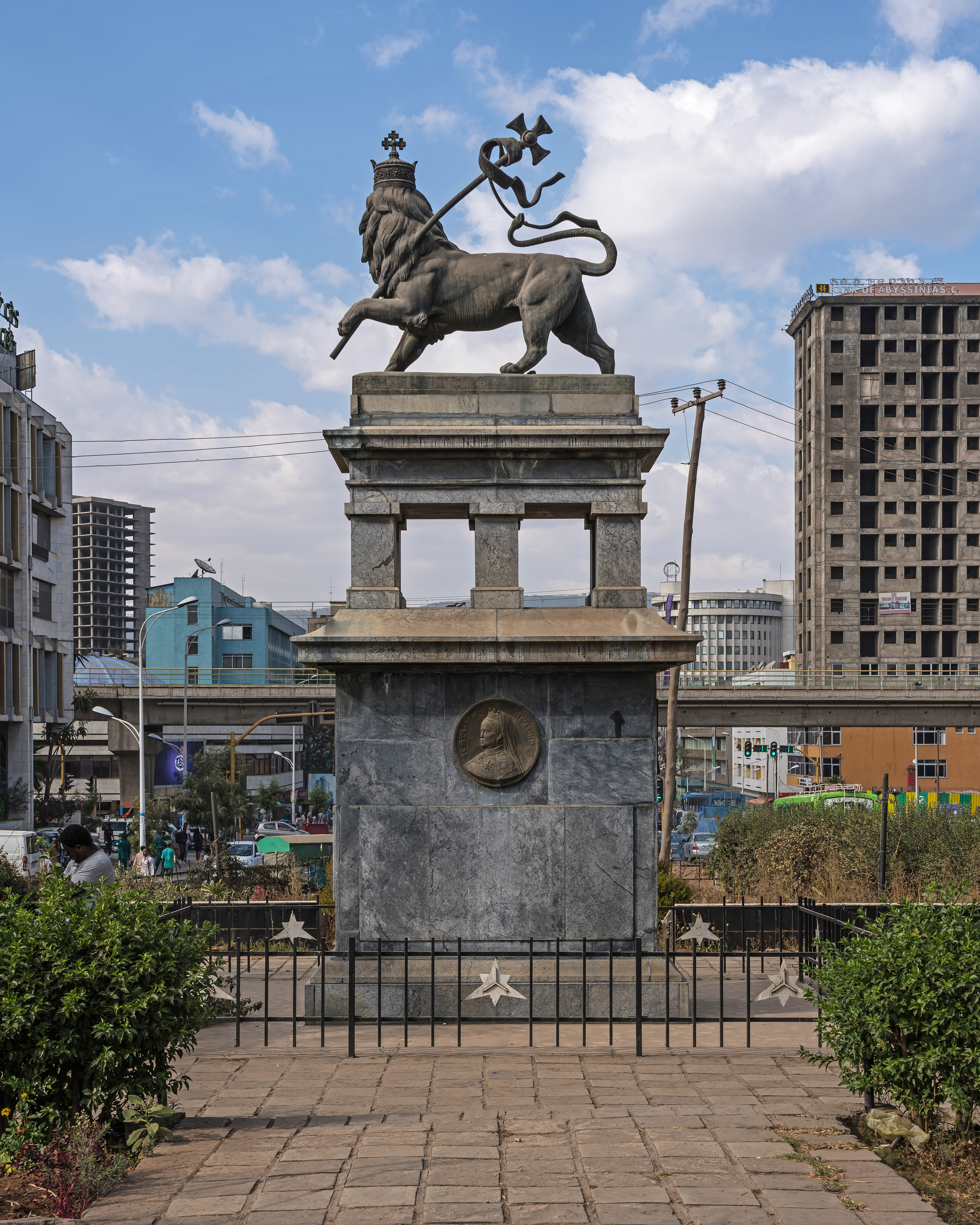 Statue of the Lion of Judah in Addis Ababa, Ethiopia